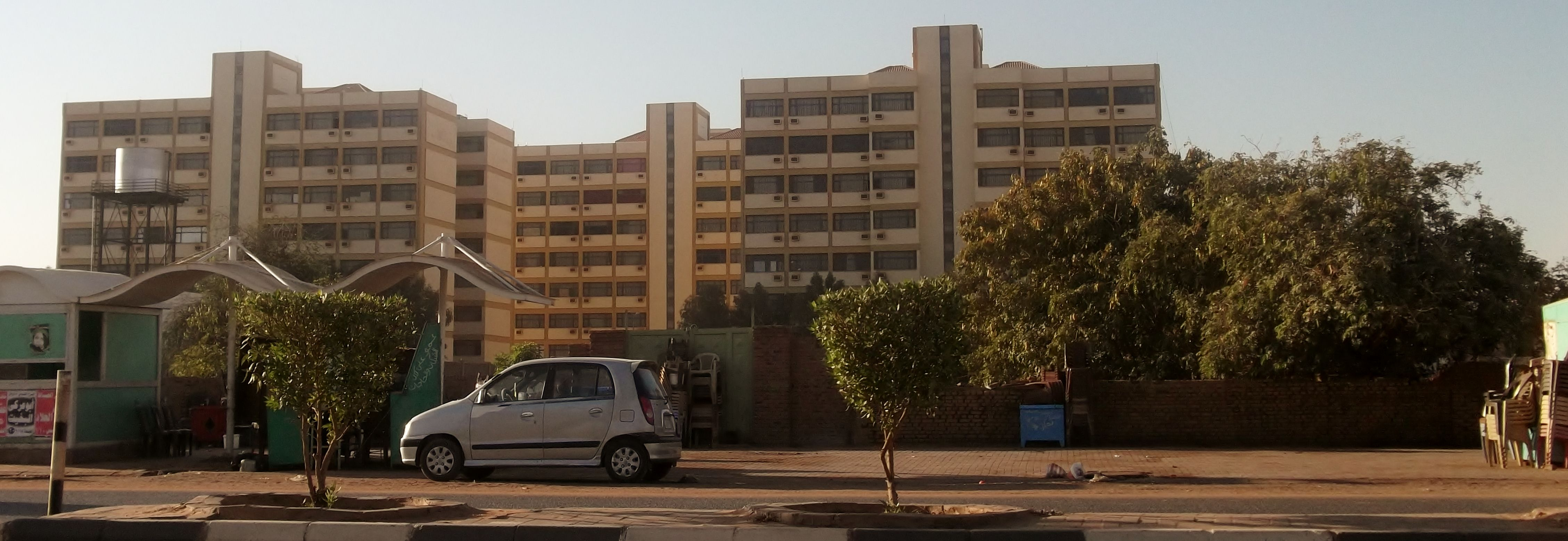 Alardah Road - Omdurman - Sudan